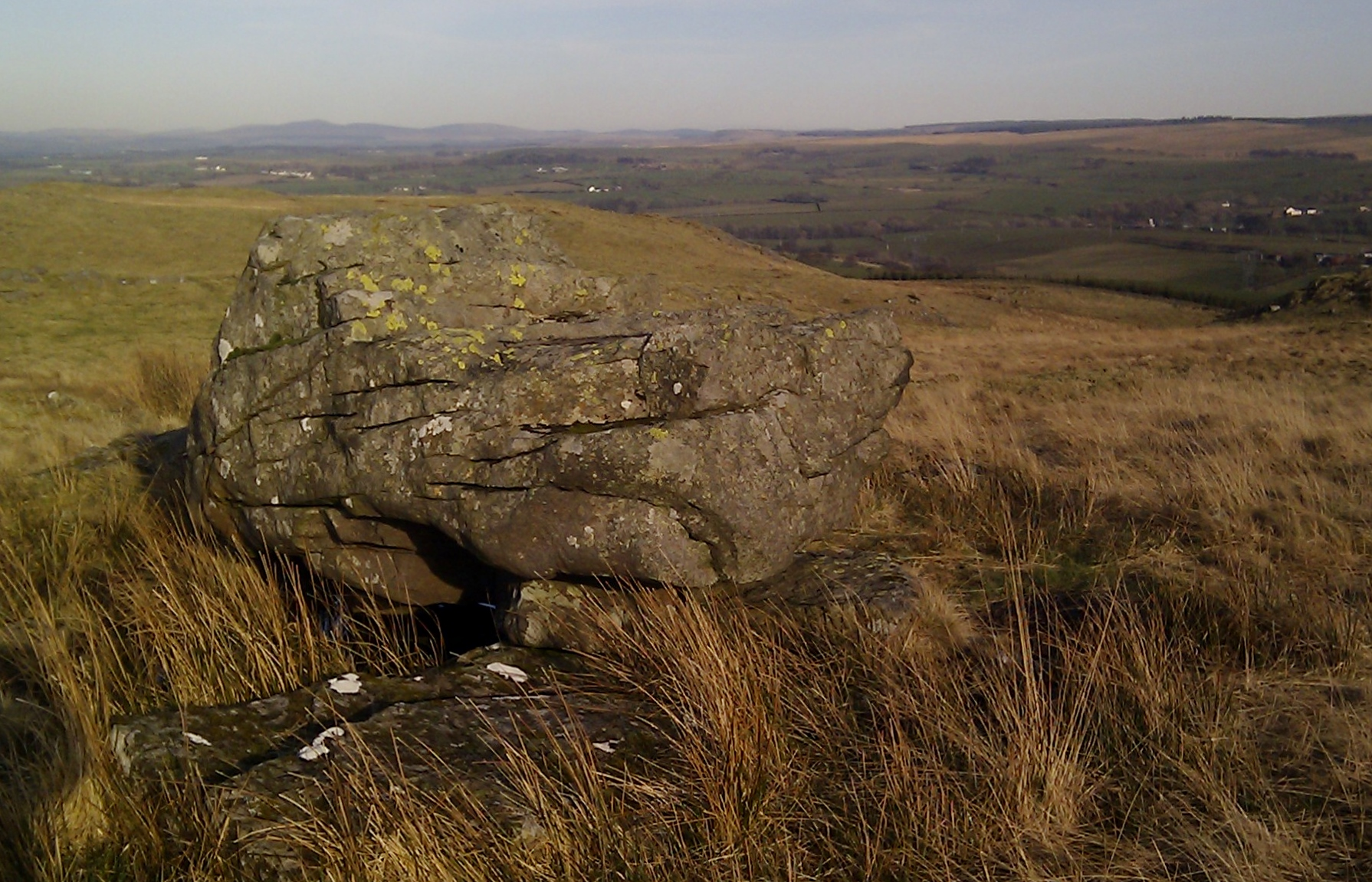 The Witch's Rocking Stone on the Craigs o'Kyle near Drongan, East Ayrshire, Scotland. Used supposedly for Druidic rituals and judgements.